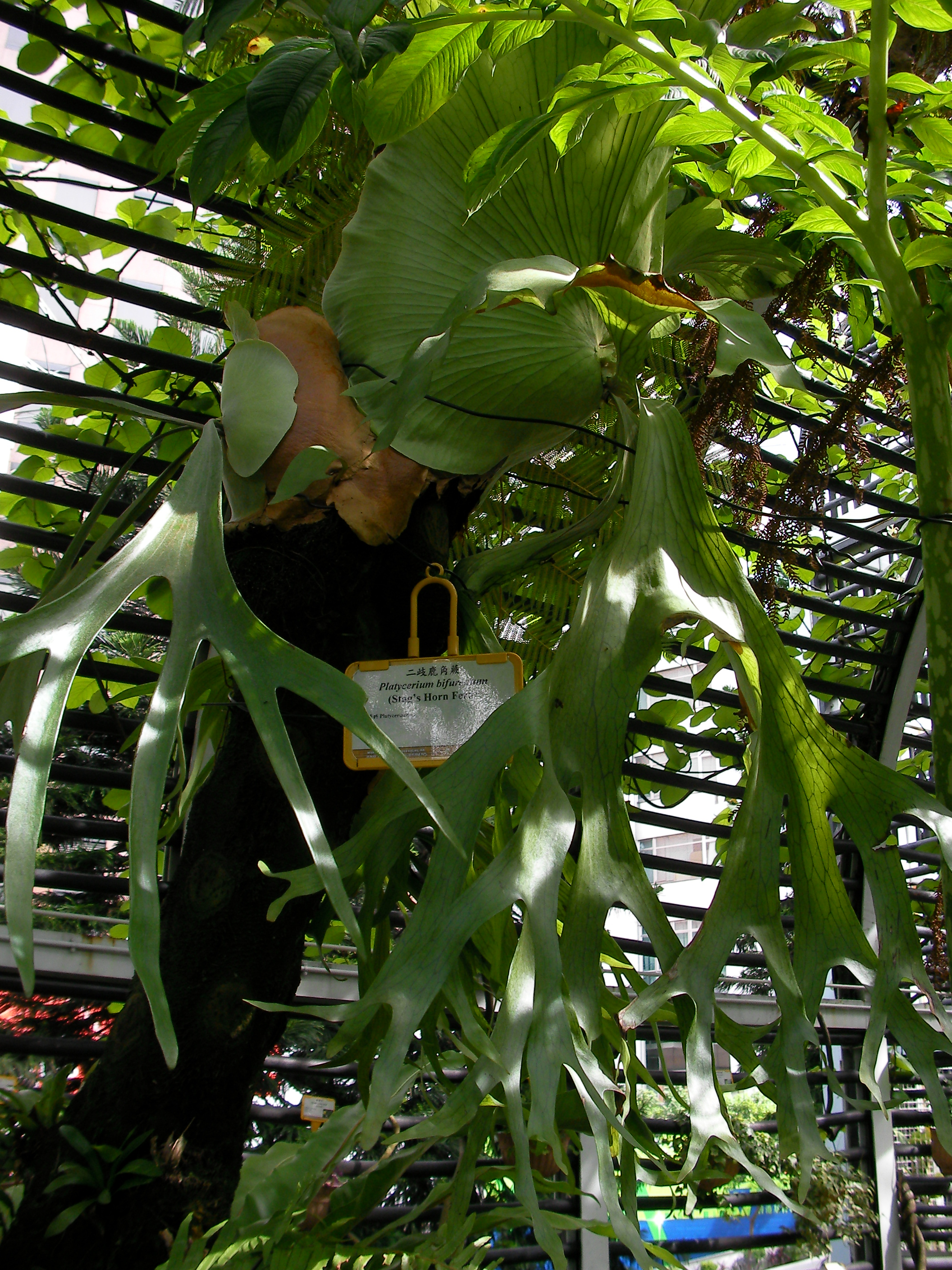 Platycerium bifurcatum taken in Hong Kong Zoological and Botanical Gardens